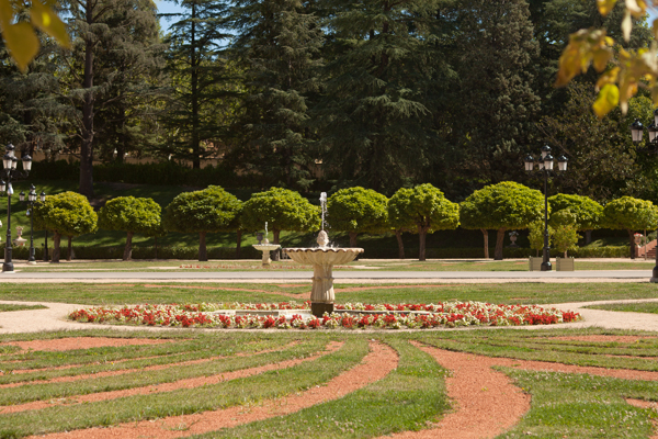 Palacio Real de El Pardo; Madrid, Comunidad de Madrid, Madrid, Spain; ; ; Photographer: Paul M.R. Maeyaert; © Paul M.R. Maeyaert; ; Cultural heritage; Cultural heritage/garden park; Cultural heritage/Palace; Europeana; Europe/Spain/El Pardo